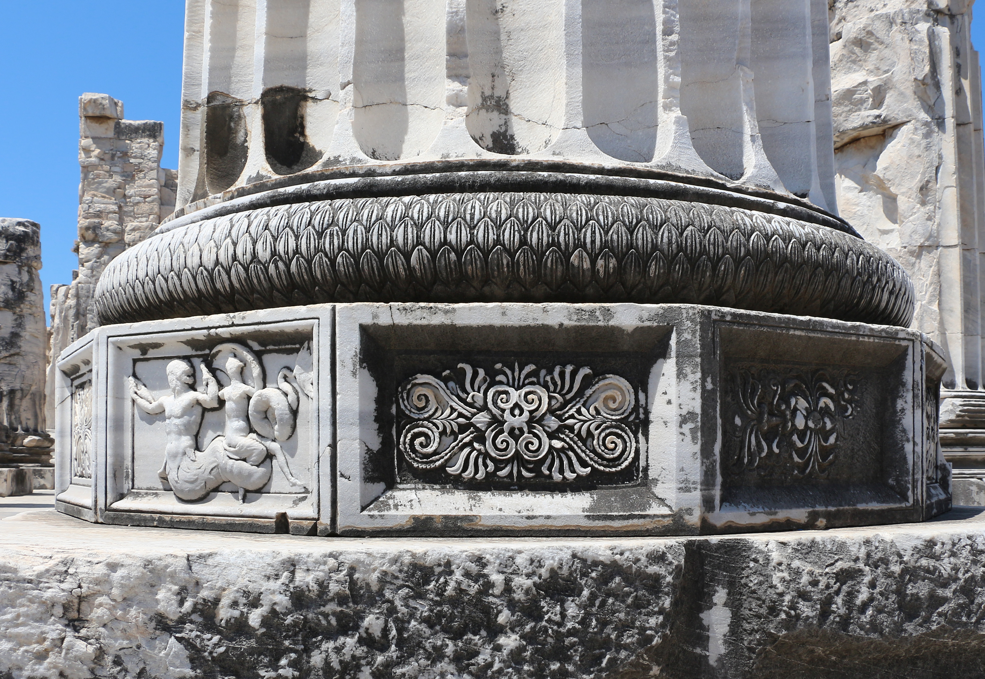 Base of a column in the Temple of Apollo, Didyma, Turkey